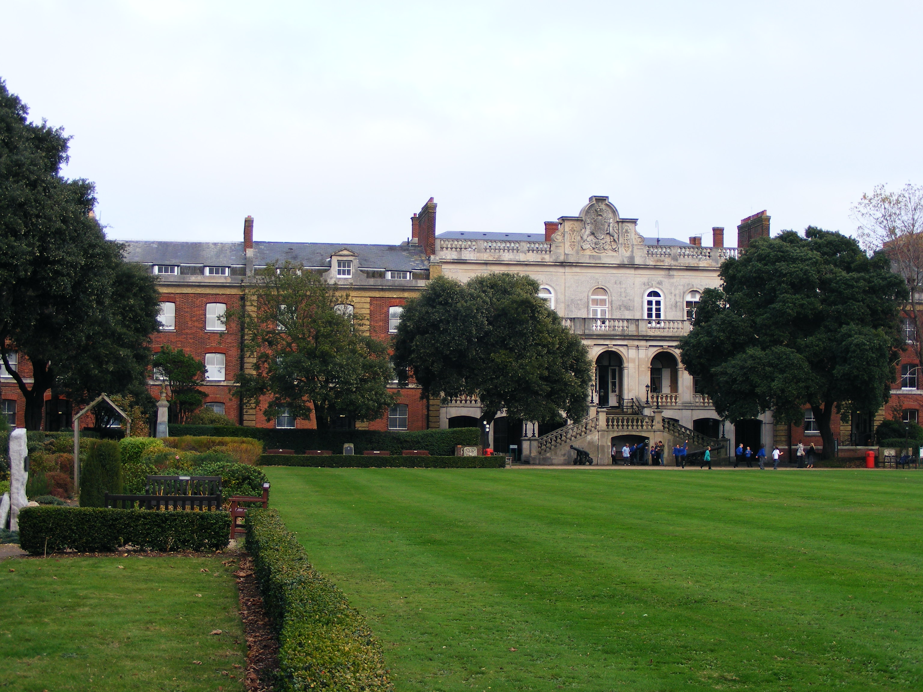 Based in the lavishly decorated former Officers’ Mess of Eastney Barracks, built in the 1860s for the Royal Marine Artillery.